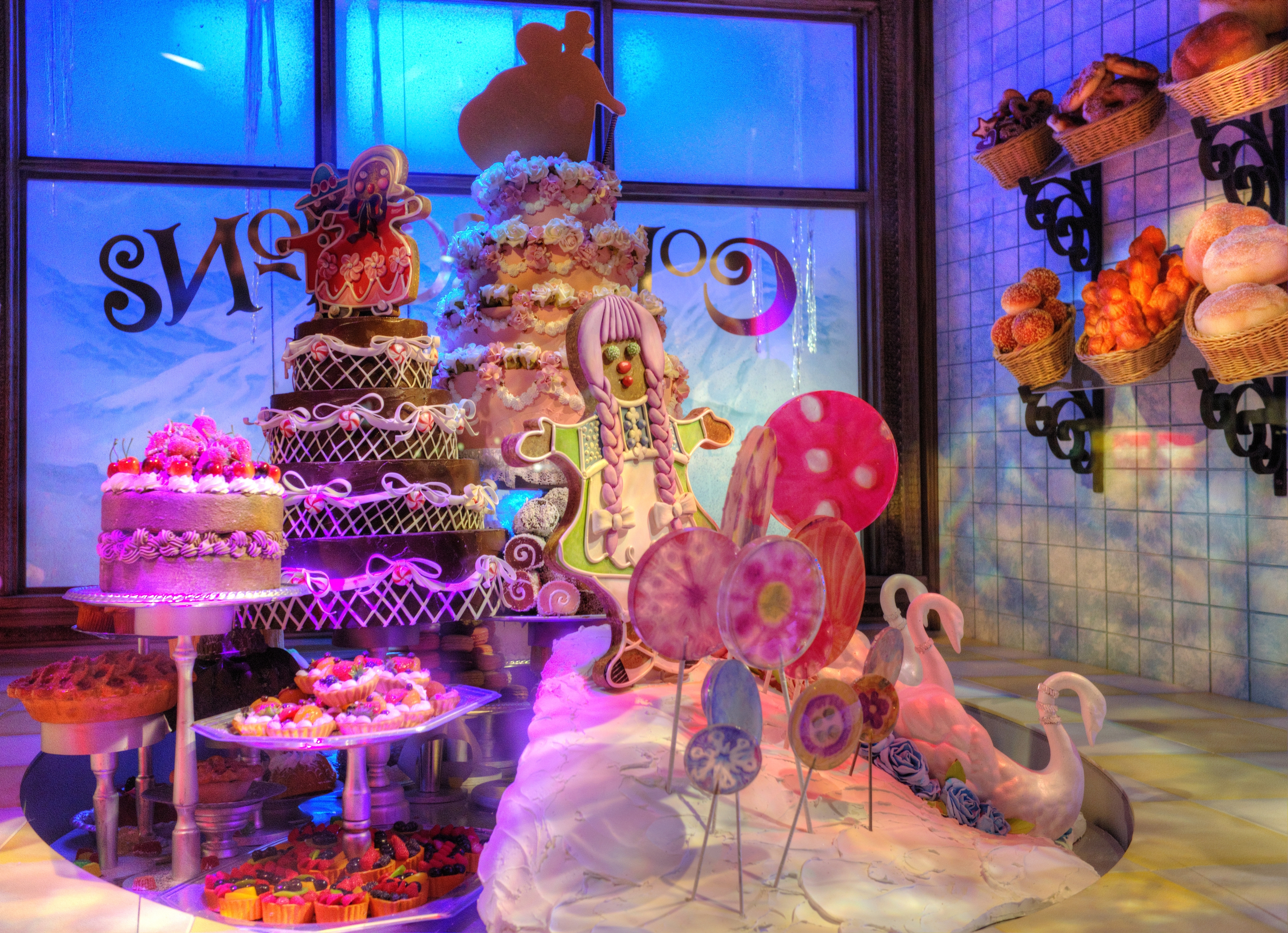 For the 58th year, the Myer store Christmas window display featured "Gingerbread Friends" based on the book by American children’s author, Jan Brett. Each window retells part of the of story with animatronics and accompanying narration (both spoken and written). This window was my particular favourite as the fake food was well presented and looks good enough to eat... just check out the bread baskets! Collectors Weekly has an interesting article about the origins of department stores Christmas window displays.